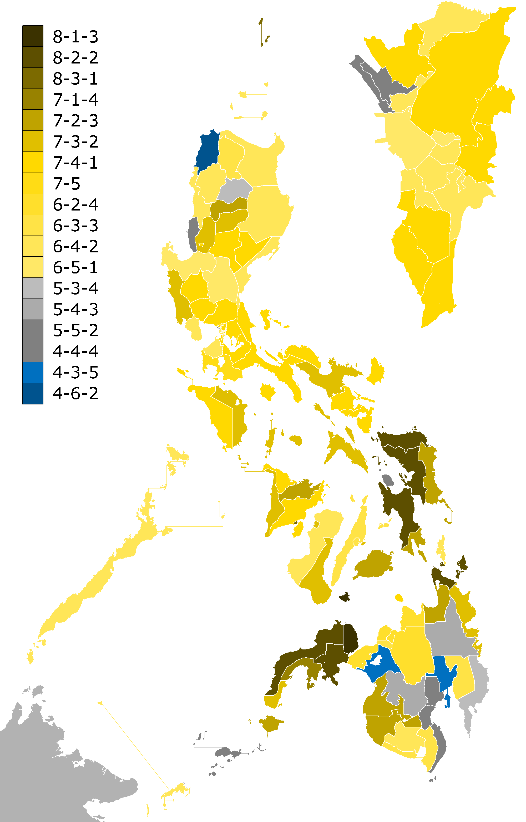 Results of the Philippine Senate election, 2016 per province; the party with the plurality of votes is shaded. Key: Yellow: Liberal Party Gray: Independents Note that independent candidates never campaigned together, and the result is determined via a naitonwide vote.